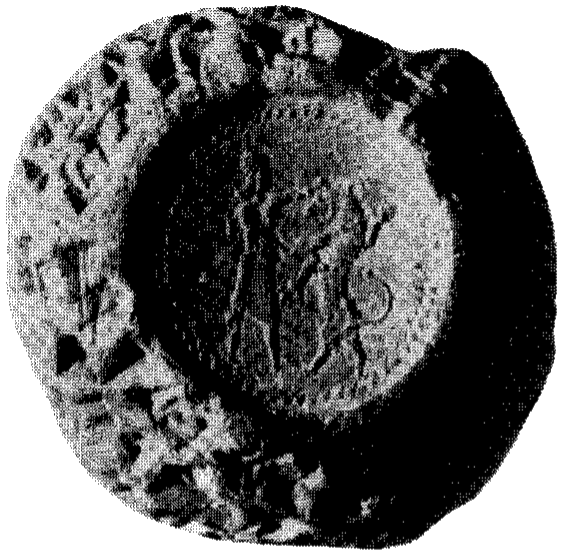 Undated seal impression from Nineveh of a beardless Assyrian king, possibly Sin-shumu-lishir